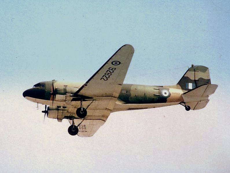 GREEK AIR FORCE C47 AT ATHENS AUG83